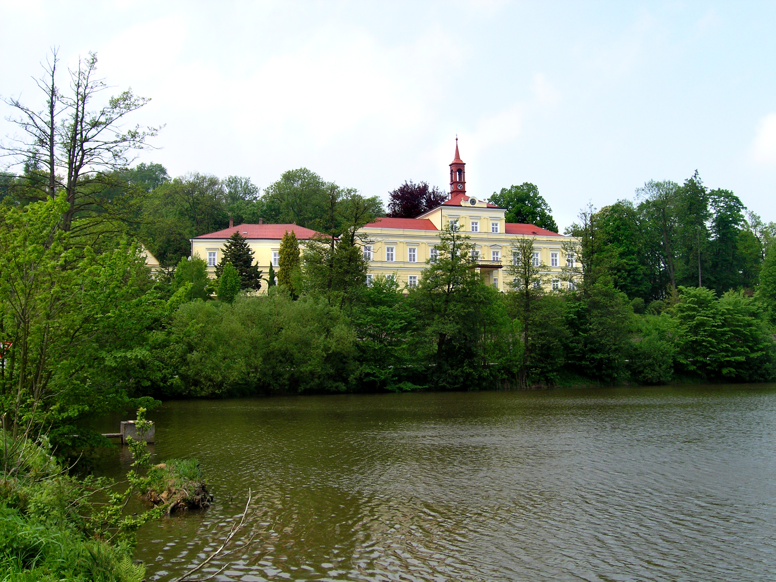 Church in Rozsochatec, Czech Republic